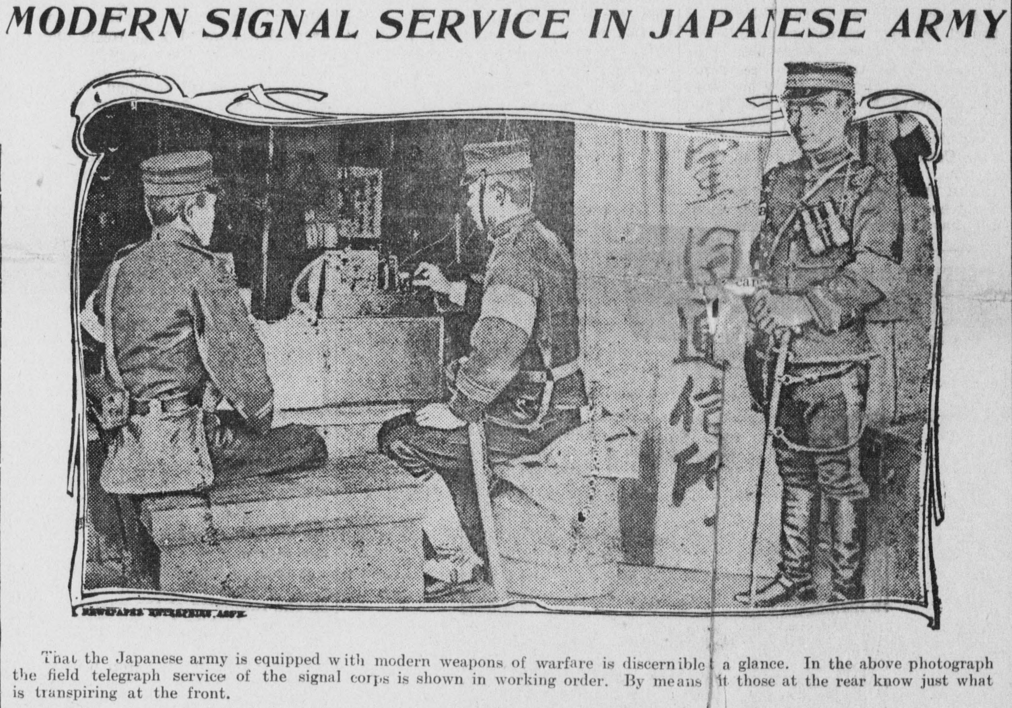 a telegraphy station in the Imperial Japanese Army, 1904.